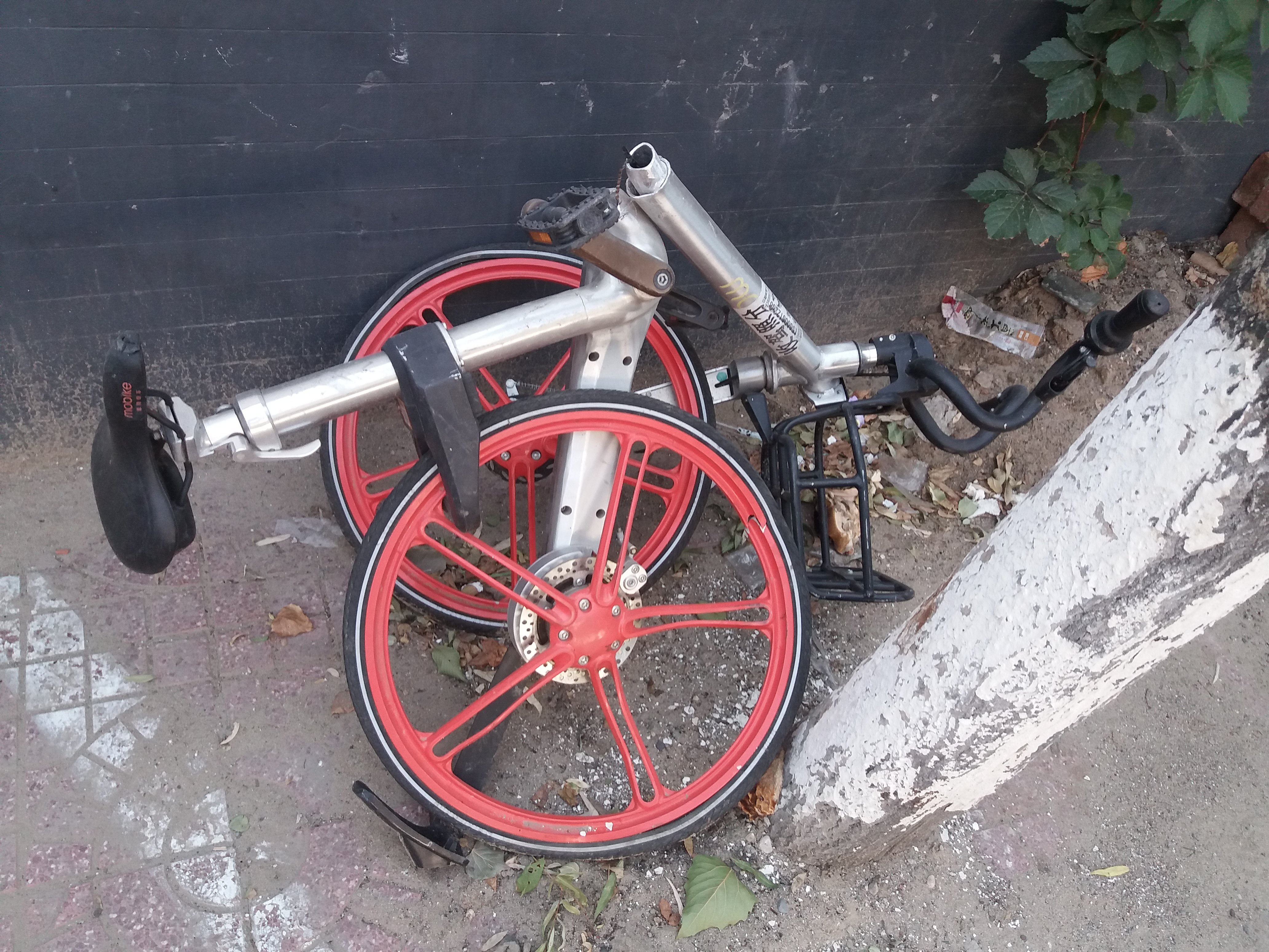 a Corpse of Mobike on a street in Beijing